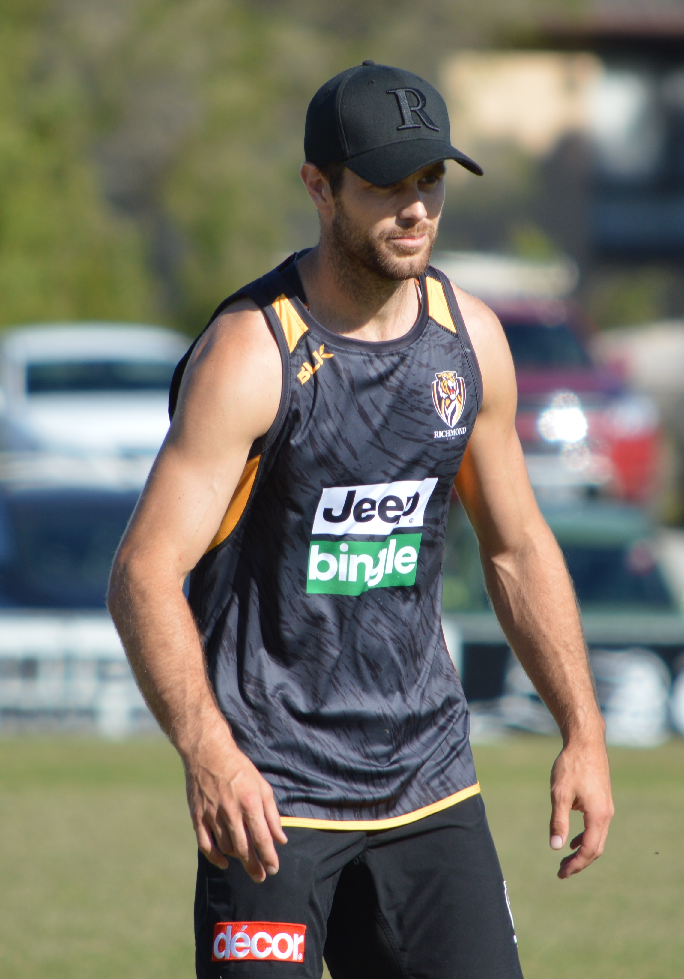 Trent Cotchin at Richmond Football Club's family day in Beaconsfield Victoria on 20 December, 2016.